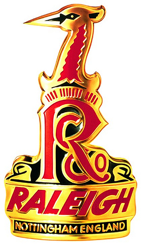 This file is being uploaded by Raleigh UK Ltd to give a true and accurate reflection of the company.